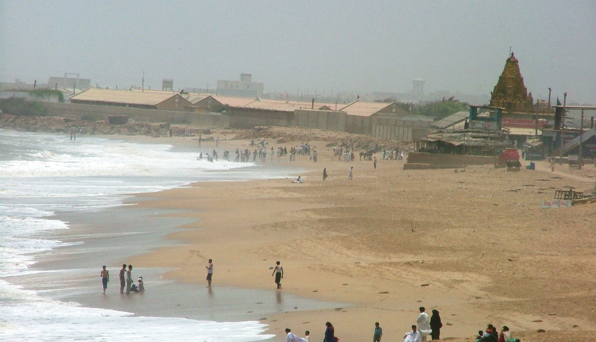 Manora is a small island (2.5 km²) located south of the Port of Karachi, Pakistan. The island is connected to the mainland by a 12 kilometer long causeway called the Sandspit. Manora is also a popular picnic spot because of the long sandy beaches along the southern edge of the island, which merge into the beaches of the Sandspit and then extend several kilometers to the beaches at Hawkesbay. At the southeastern end of Manora island is the tallest lighthouse in Pakistan.